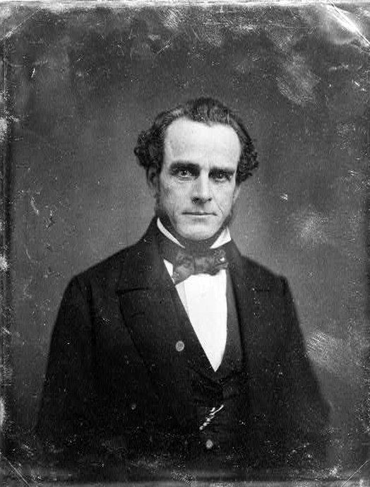 Thomas Butler King (1800-1864) Source Digital ID: cph 3c09840 Source: b&w film copy neg. post-1992 Reproduction Number: LC-USZ62-109840 (b&w film copy neg. post-1992) , LC-USZ62-28255 (b&w film copy neg. pre-1992) Repository: Library of Congress Prints and Photographs Division Washington, D.C. 20540 USA Photographer: Mathew Brady studio. Mathew B. Brady died 1896.